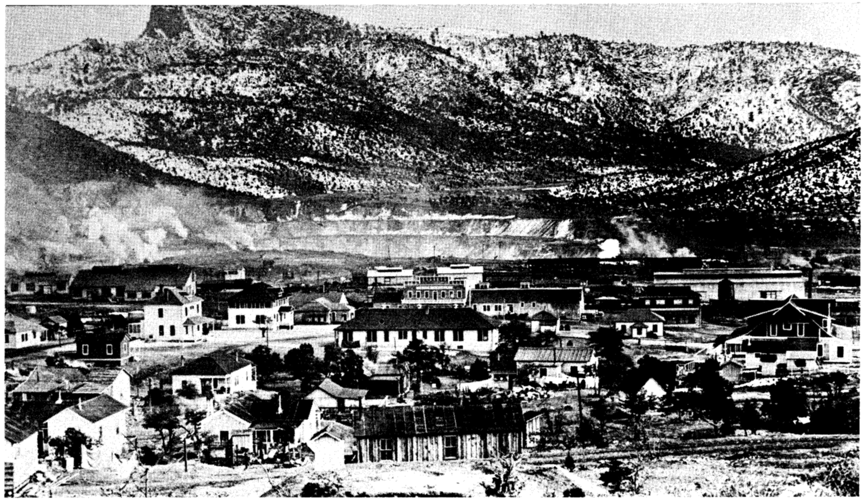 Photograph of Santa Rita, New Mexico, United States